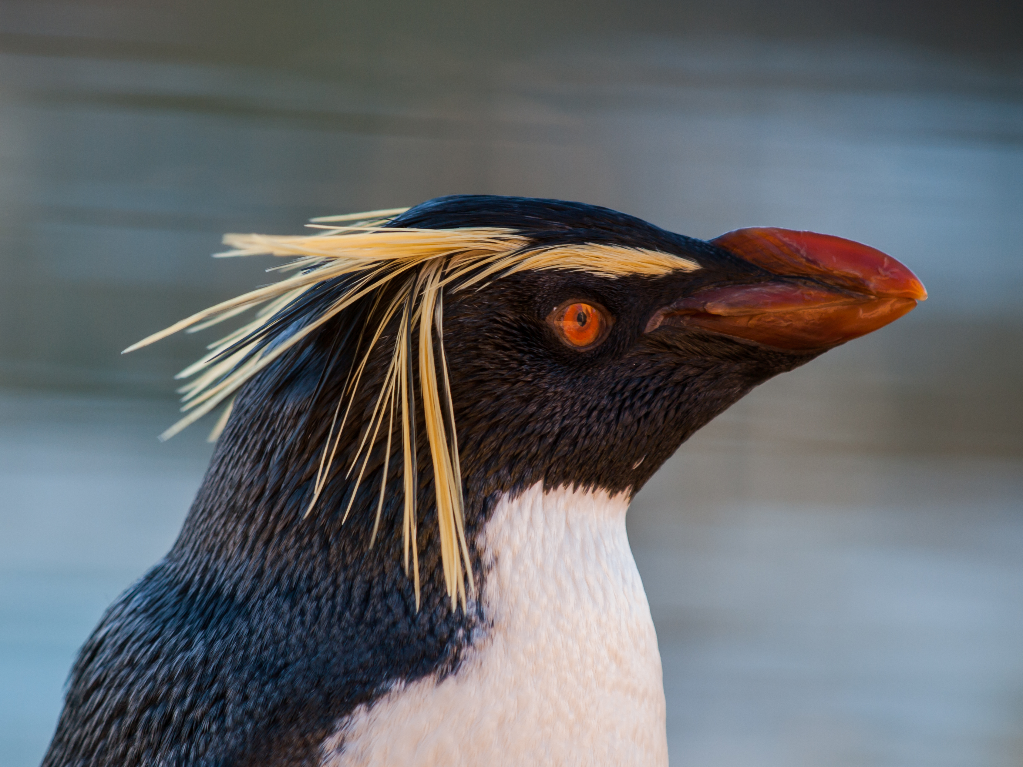 Rock hopper penguin at Edinburgh Zoo PERMISSION TO USE: you are welcome to use this photo free of charge for any purpose including commercial. I am not concerned with how attribution is provided - a link to my flickr page or my name is fine. If the used in a context where attribution is impractical, that's fine too. I want my photography to be shared widely. I like hearing about where my photos have been used so please send me links, screenshots or photos where possible.